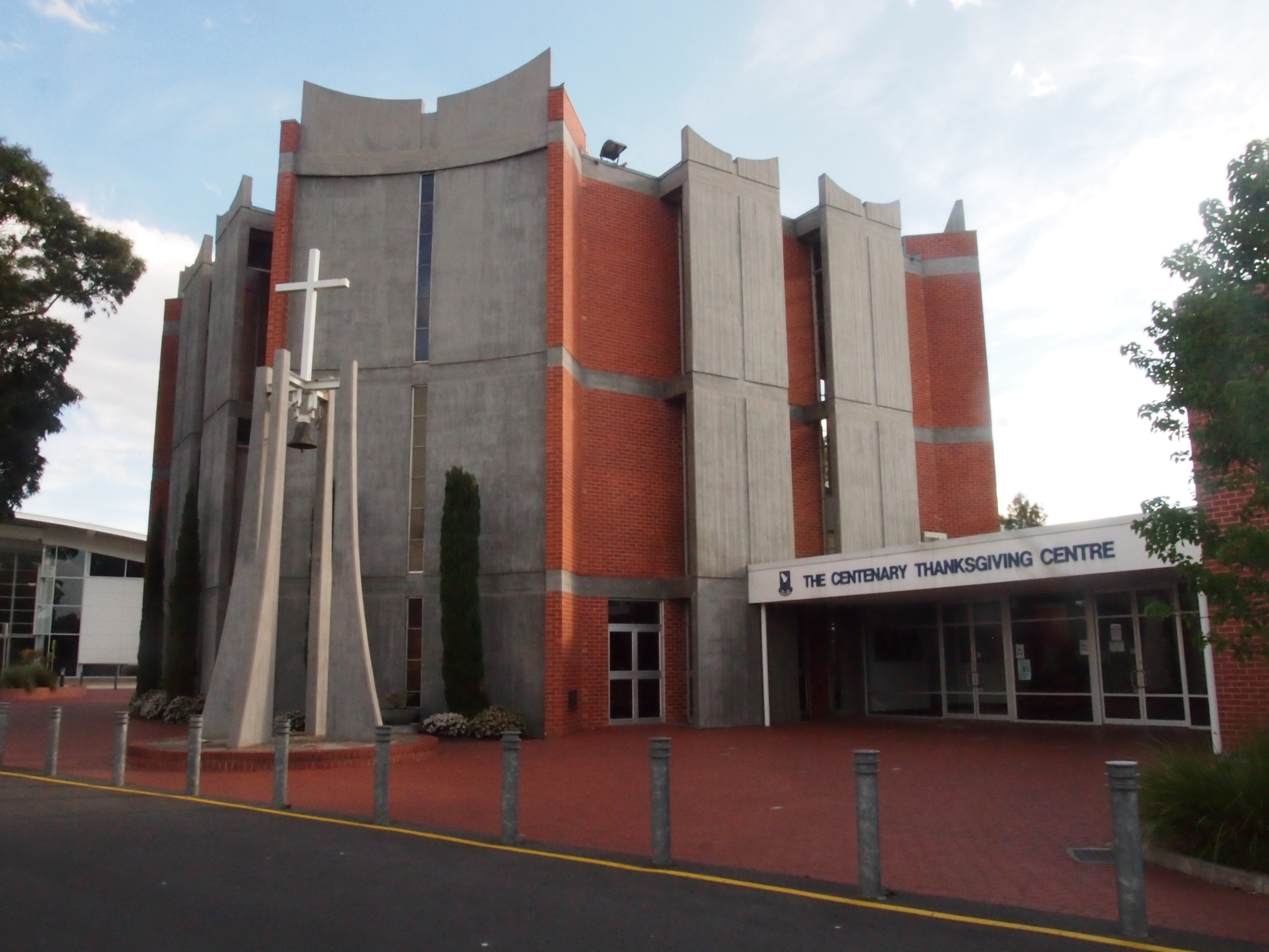 Chapel of the Lutheran Immanuel College in South Australia. Original filename = PA072172.JPG